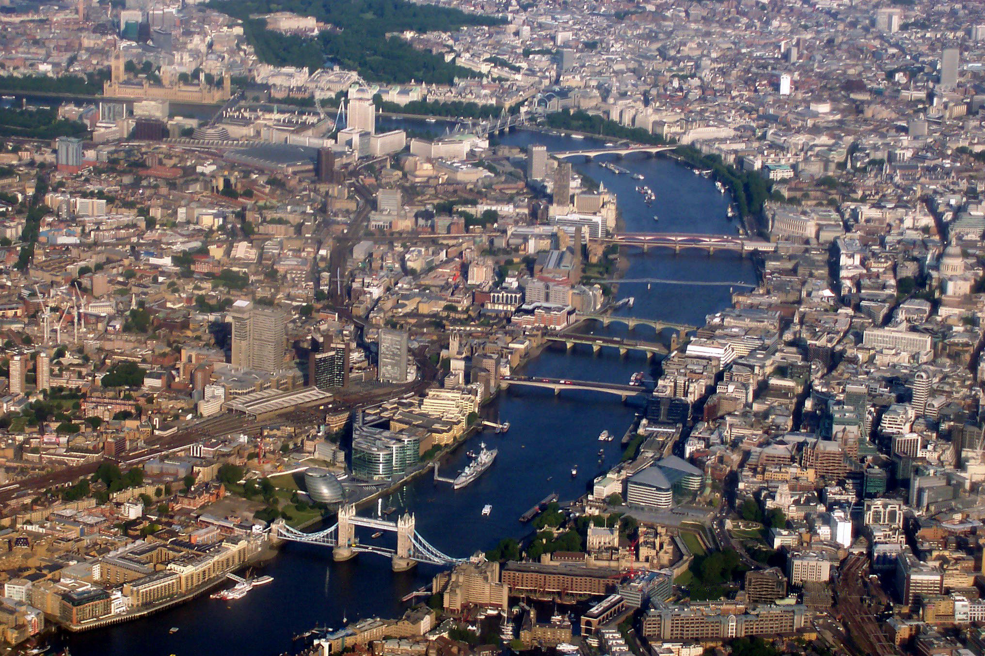 Aerial view of London